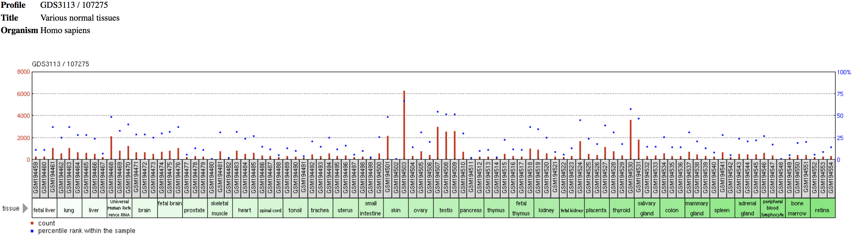 Microarray-assessed tissue expression profile of c12orf60. Percentile ranks within sample that range from 50-75% are considered medium expression, while 25-50% are considered low levels of expression.